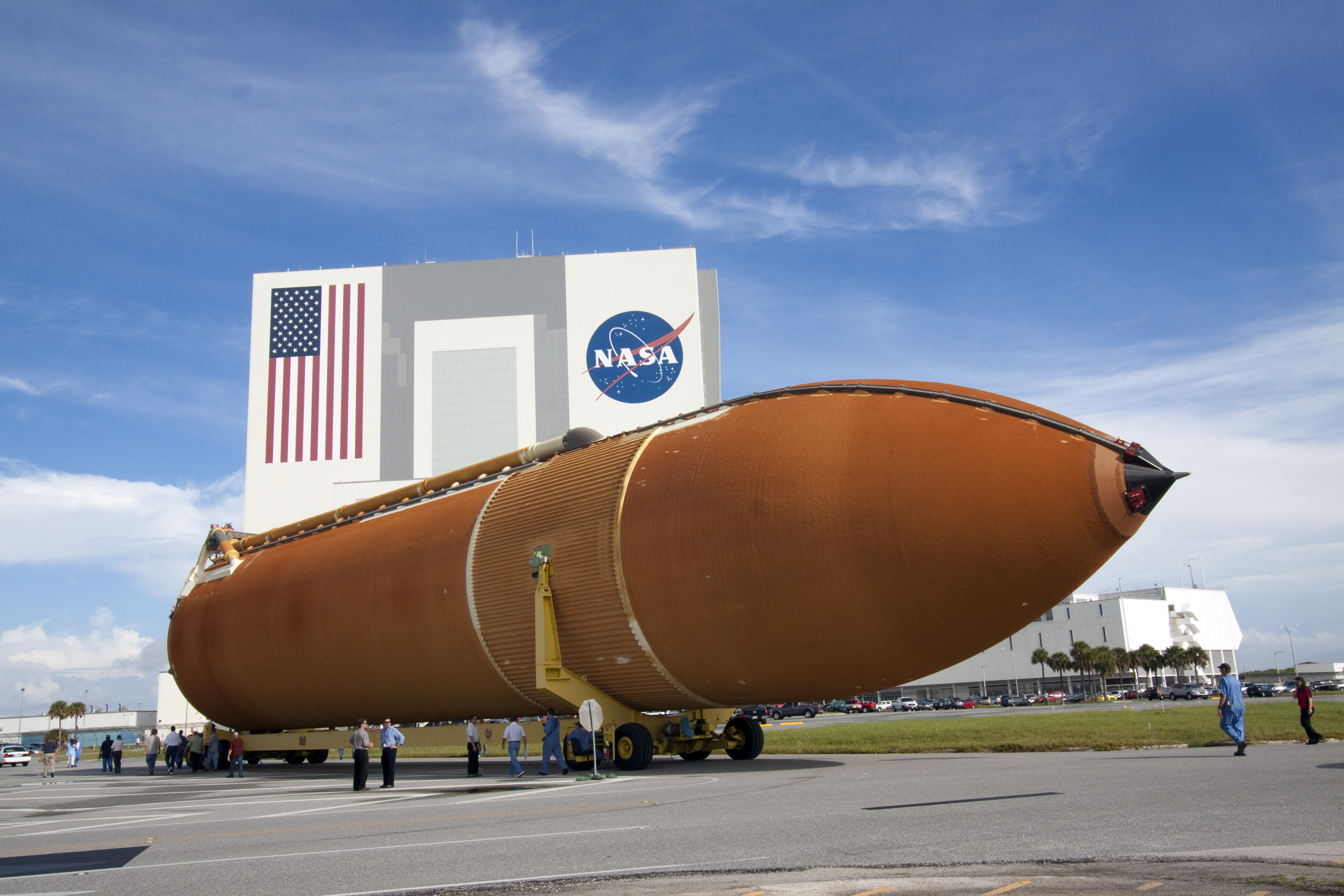 CAPE CANAVERAL, Fla. -- The Space Shuttle Program's last external fuel tank, ET-122, moves from the Turn Basin to the Vehicle Assembly Building at NASA's Kennedy Space Center in Florida. The tank traveled 900 miles by sea from NASA's Michoud Assembly Facility in New Orleans aboard the Pegasus Barge. Once inside the Vehicle Assembly Building, it eventually will be attached to space shuttle Endeavour for the STS-134 mission to the International Space Station. STS-134, targeted to launch in Feb. 2011, currently is scheduled to be the last mission in the shuttle program. The tank, which is the largest element of the space shuttle stack, was damaged during Hurricane Katrina in August 2005 and restored to flight configuration by Lockheed Martin Space Systems Company employees.